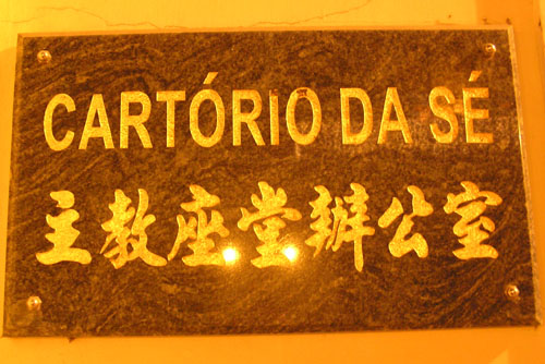 A sign of the office of the Sé Cathedral in Macao in both Portuguese and